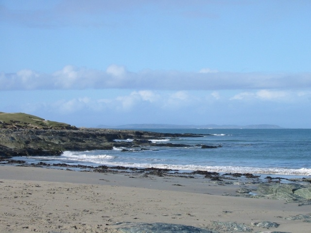 Beach at Port na Feamainn Beach at Port na Feamainn looking towards Colonsay.